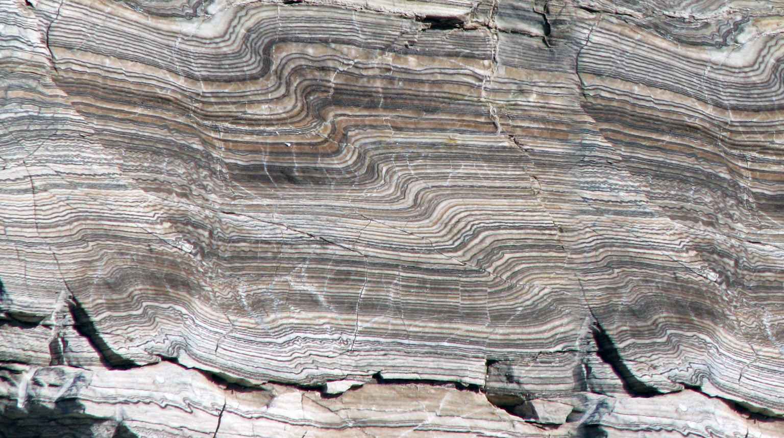 Folded gyprock (Castile Formation, Upper Permian; State Line outcrop, southern Eddy County, New Mexico, USA) 7 Folded gyprock in the Permian of New Mexico, USA. This is the famous (& former) State Line outcrop, along Rt. 180/Rt. 62 at the New Mexico-Texas border. The cut contains finely-laminated gyprock (rock gypsum), a finely crystalline-textured, chemical sedimentary rock composed of the mineral gypsum (CaSO4·2H2O - hydrous calcium sulfate). Gyprock is an evaporite, which forms by the evaporation of water (usually seawater) and the precipitation of dissolved minerals. The whitish layers are gypsum. The dark brown layers are calcite. Each gypsum-calcite couplet represents one year's worth of deposition. These layers could be called varves. The calcite-gypsum (or -anhydrite) couplets have been successfully correlated throughout the Delaware Basin. Spectacular crinkling, small-scale folding, and small-scale faulting are present here. The folds and faults formed as a result of early Cenozoic structural deformation, not gypsum-to-anhydrite (or vice-versa) transformations (see Anderson & Kirkland, 1987). This world-class outcrop was destroyed in the late 2000s by the highway department to convert the two-lane highway into a four-lane divided highway. Stratigraphy: Castile Formation, upper Upper Permian Locality: State Line outcrop, roadcut on either side of Rt. 180/Rt. 62, between Carlsbad Caverns National Park and Guadalupe Mountains National Park, immediately north of the Texas border, southern Eddy County, southeastern New Mexico, USA (32° 00' 34.2" North latitude, 104° 29' 55.0" West longitude) Reference cited: Anderson, R.Y. & D.W. Kirkland. 1987. Banded Castile evaporites, Delaware Basin, New Mexico. Rocky Mountain Section of the Geological Society of America, Centennial Field Guide Volume 2: 455-458.